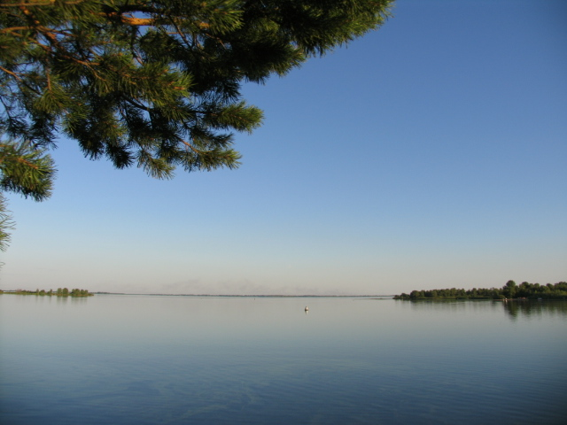 Syzran - Volga